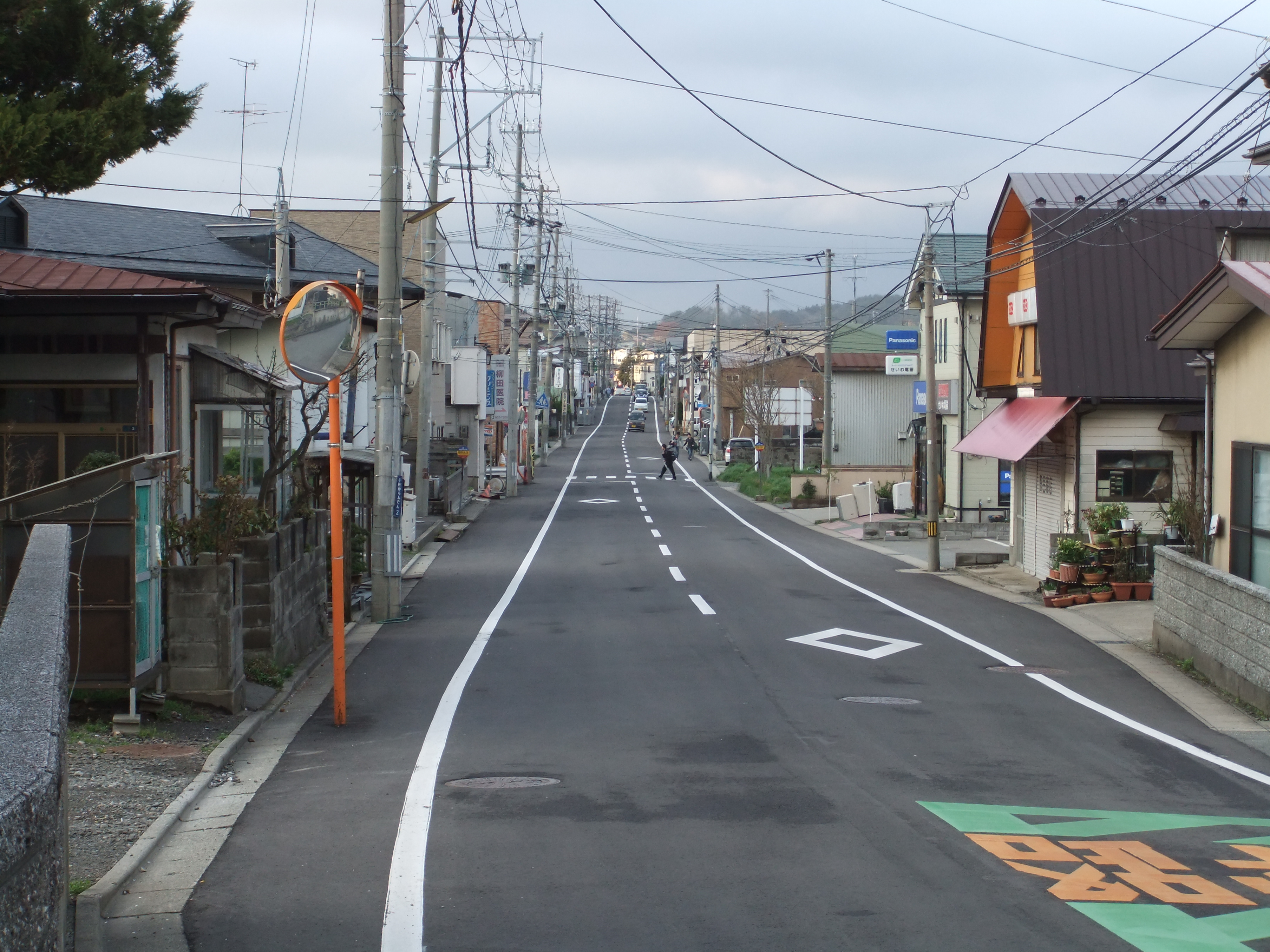 The former Akita prefectural road #144 (now it is Akita city road).